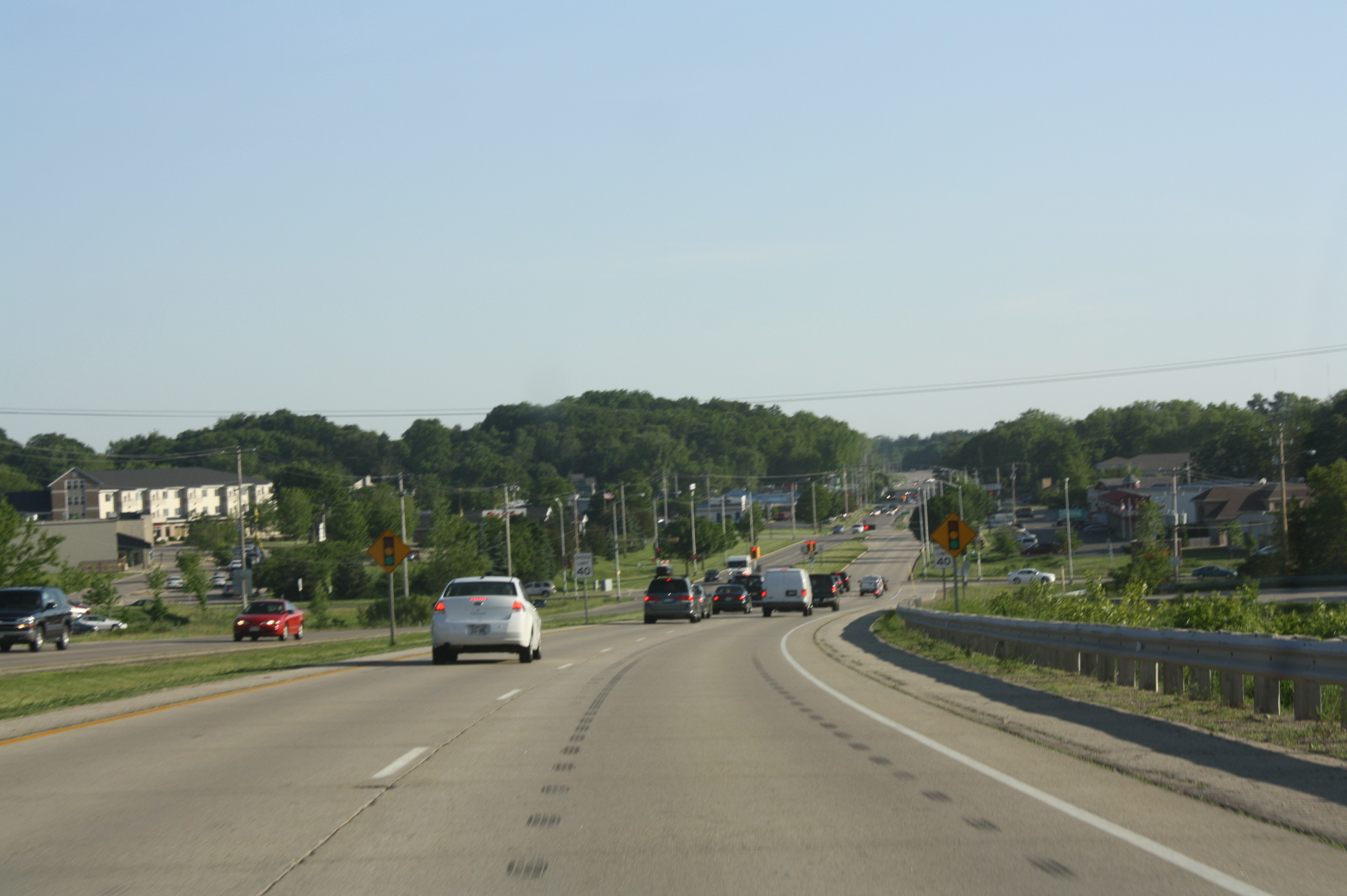 Looking north, a panorama of McFarland, Wisconsin on U.S. Route 51.